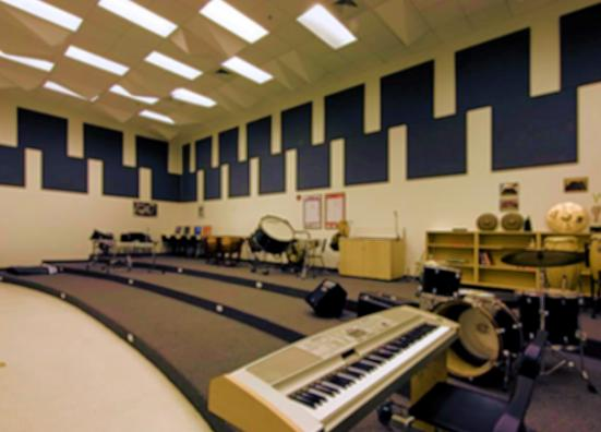 Miami Beach Senior High band room classroom